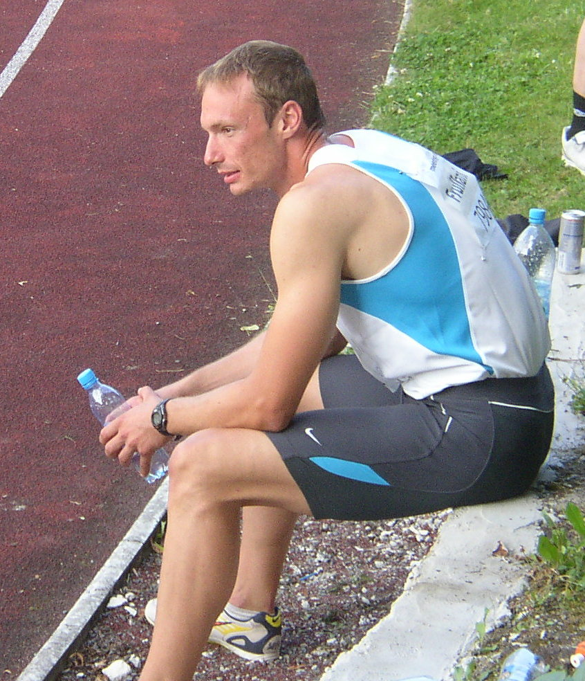 Italian decathlete William Frullani resting at TNT - Fortuna Meeting decathlon in Kladno, June 19, 2008.